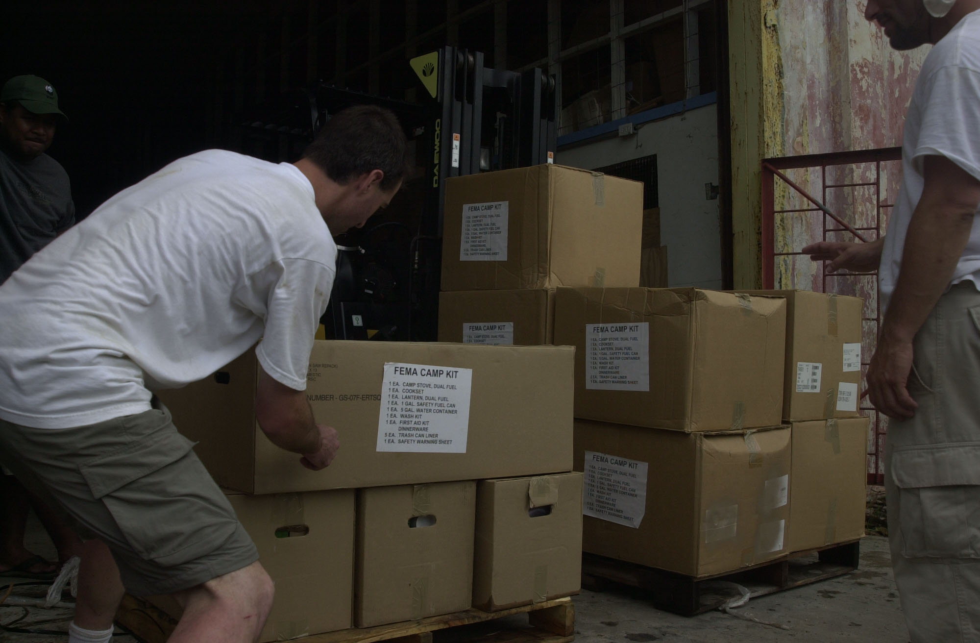 COLONIA, YAP, FSM, APRIL 22. 2004 - Dean Millan, Greg Ofner, Tom Aikin, Alberto Ortega, Rico Gonzalez, and Dave Nish from the US Forest Service unload trucks of FEMA emergency supplies at the FEMA distribution warehouse on Yap. Local partners assisted the USFS in carrying out the relief mission tasked by FEMA following the destruction to homes and crops from Typhoon Sudal. FEMA Photo/John Shea